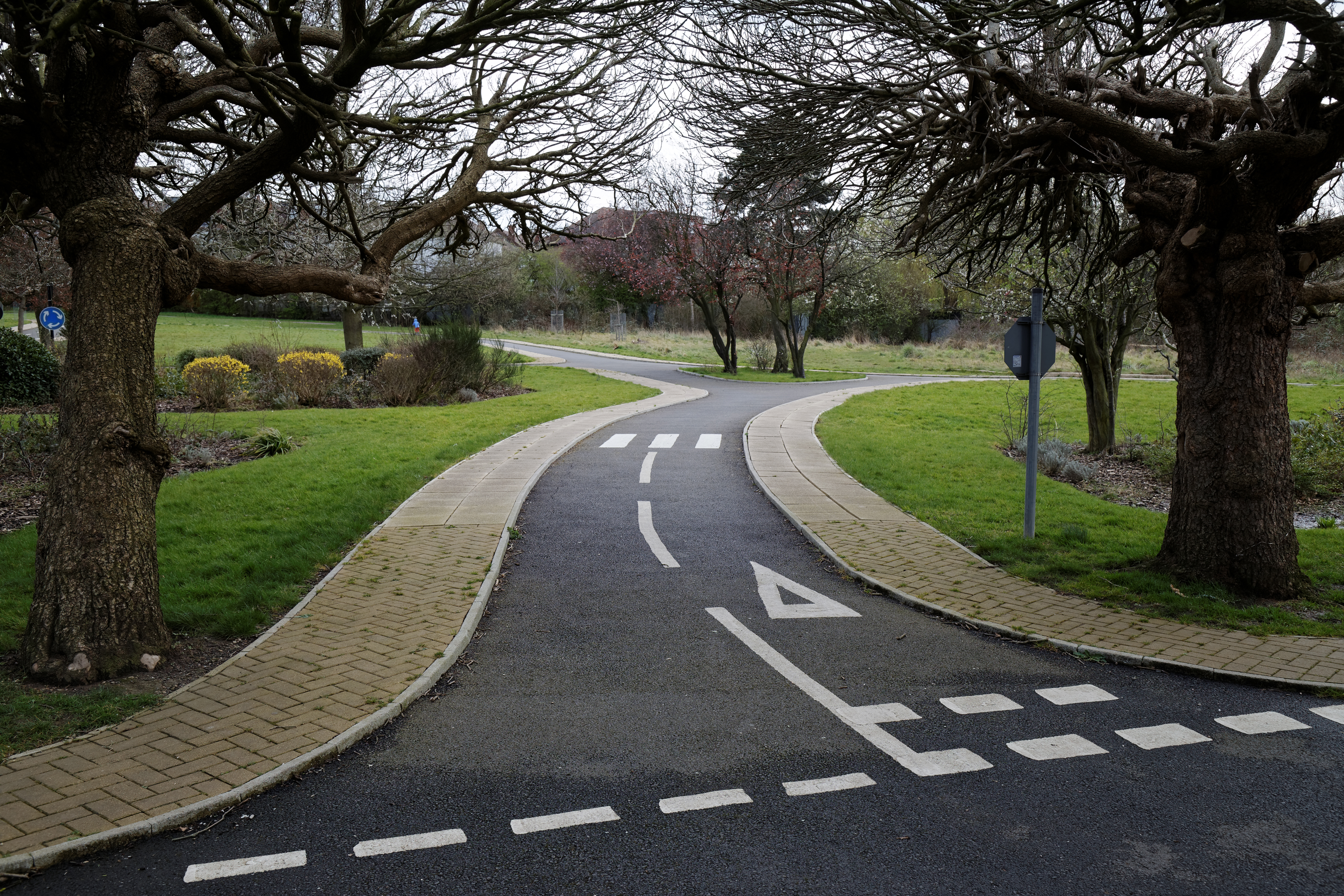 The 'Model Traffic Area', a scaled-down road network for children opened in 1938 at Lordship Recreation Ground, Tottenham, London Borough of Haringey, England. British Pathé film of the Model Traffic Area: [1]Camera: Canon EOS 6D with Canon EF 24-105mm F4L IS USM lens.Software: large RAW file lens-corrected, optimized and downsized with DxO OpticsPro 10 Elite, Viewpoint 2, and Adobe Photoshop CS2.